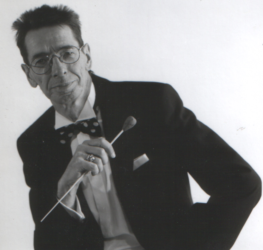 Foto of Helmut Imig